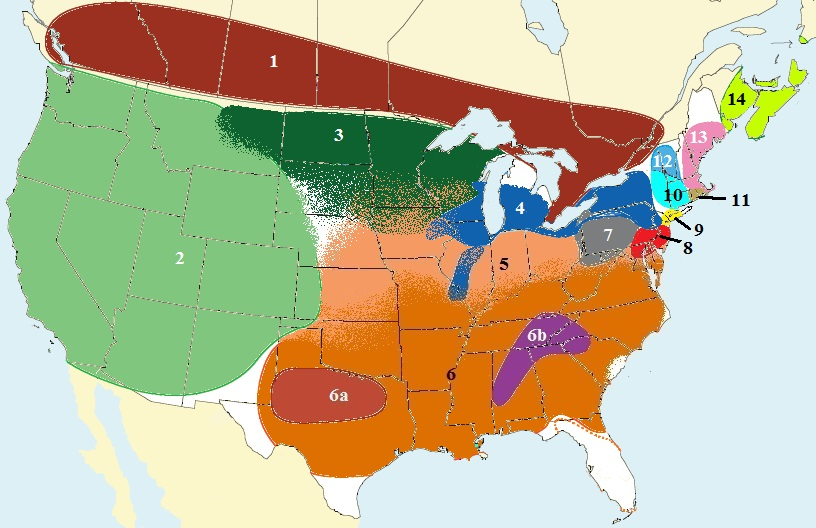 This is image is based upon Labov et al's overview of North American English dialect regions, from The Atlas of North American English (2006). 1 Standard Canadian English 2 Western American English 3 North-Central American ("Upper Midwest") English 4 Inland Northern American ("Great Lakes") English 5 Midland American English 6 Southern American English 6a Texan English 6b Inland Southern American ("Appalachian") English 7 Western Pennsylvania ("Pittsburgh") English 8 Mid-Atlantic American ("Baltimore" and "Philadelphia") English 9 New York City English 10 Southwestern New England English 11 Southeastern New England ("Rhode Island") English 12 Northwestern New England ("Vermont") English 13 Northeastern New England ("Boston" and "Maine") English 14 Atlantic Canadian English